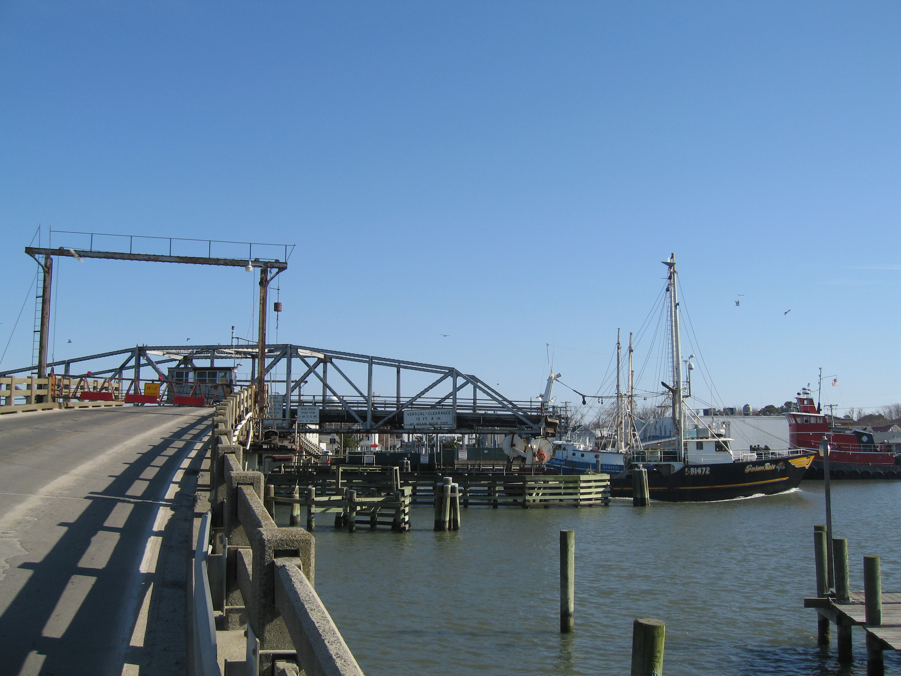 Chincoteague Channel Swing Bridge located on the east end of the John B. Whealton Memorial Causeway. The bridge spans the Chincoteague Channel, Virginia. Photograph taken on the northwest end of the bridge.